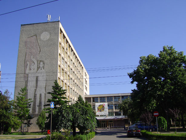 West University Timisoara